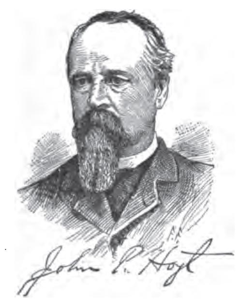 John Philo Hoyt (1841 – 1926) was an American politician and jurist who served as the fourth Governor of Arizona Territory, President of Washington's constitutional convention, and an Associate Justice of the Washington Supreme Court.